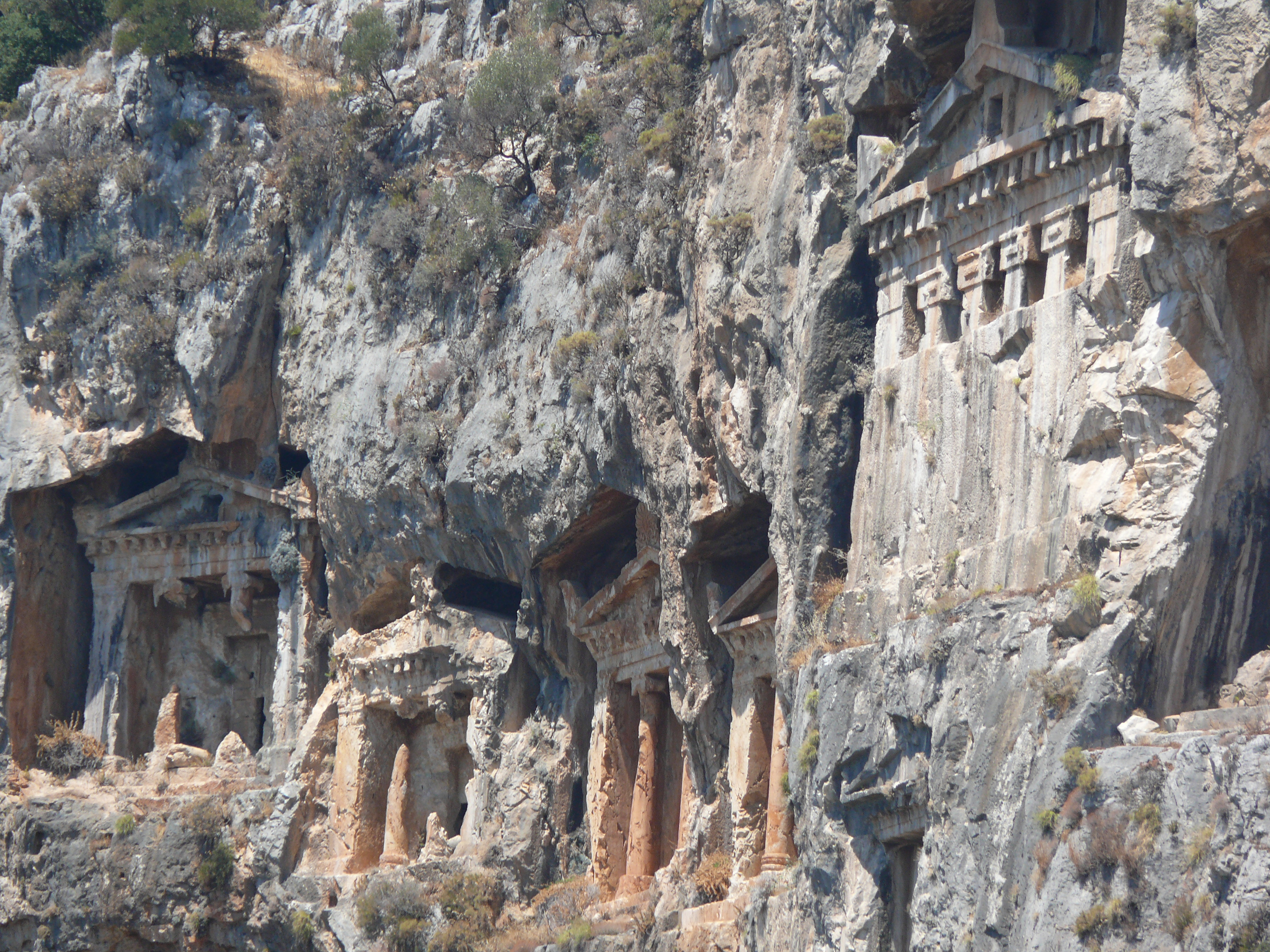 Lycia is a mountainous and densely forested region along the coast of southwestern Turkey. Many relics of the Lycians remain visible today, especially their distinctive rock-cut tombs in the sides of cliffs in the region.